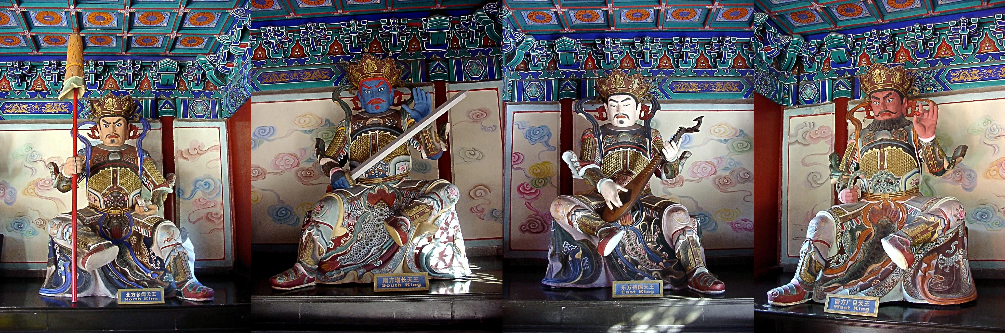 Photograph of statues of the Four Heavenly Kings, from left to right: King associated with the directions North, South, East, and West. Photographs taken in Beihai Park, Beijing, China on November, 11th, 2004 by Rolf Müller.